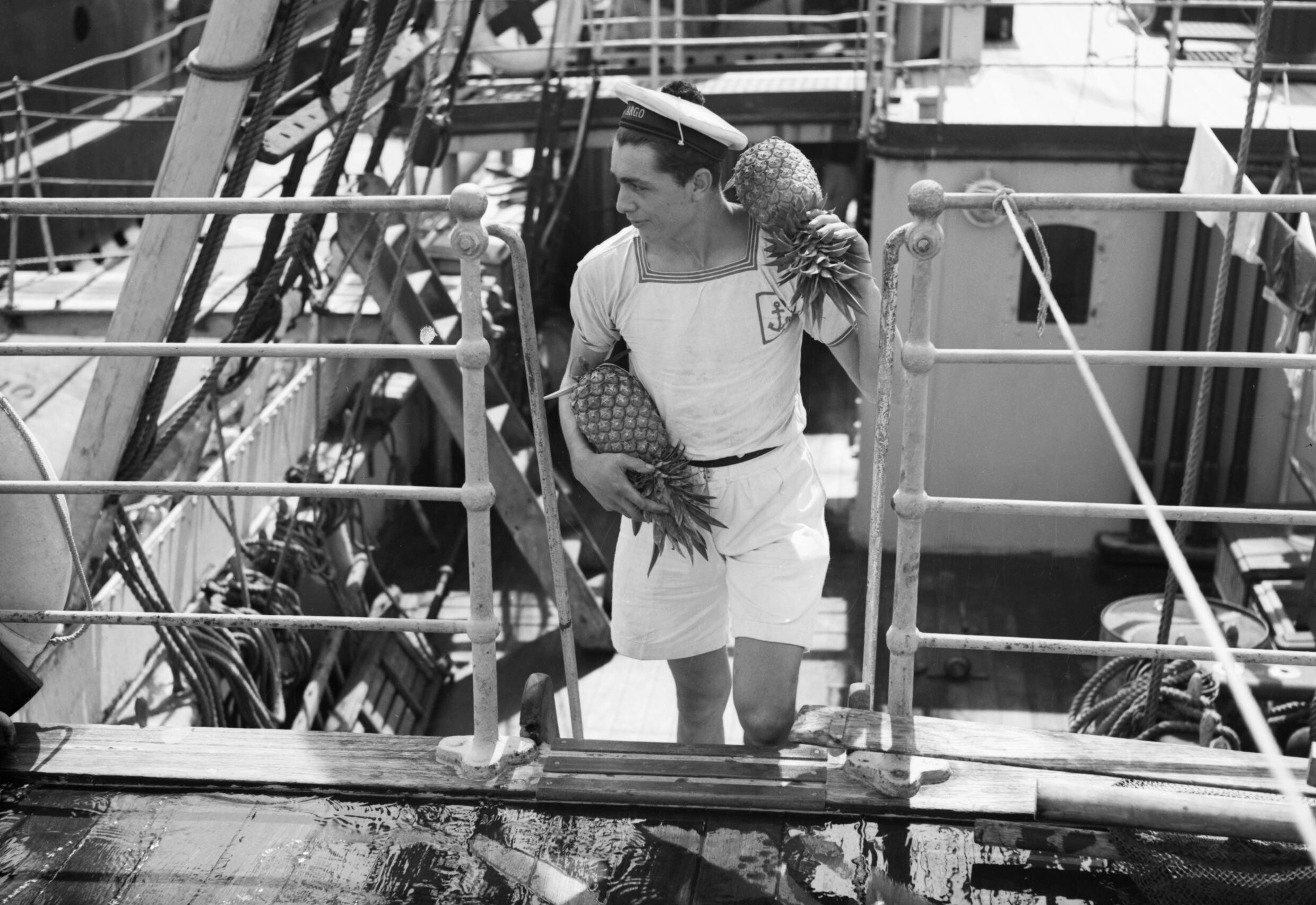 A French sailor carrying fresh pineapples on board the submarine depot ship HMS MERCATOR at Freetown, Sierra Leone, August 1943. A French submariner rating carrying fresh pineapples on board HMS MERCATOR at Freetown, Sierra Leone. HMS MERCATOR, a three masted barquentine, has been commissioned by the Royal Navy as a floating rest home for submarine men when their ships return to harbour after Atlantic patrol. The Mercator was owned by the Belgians, after the war, the ship returned to his owner. The ship is now a museum, but it still sails like 100 years ago.